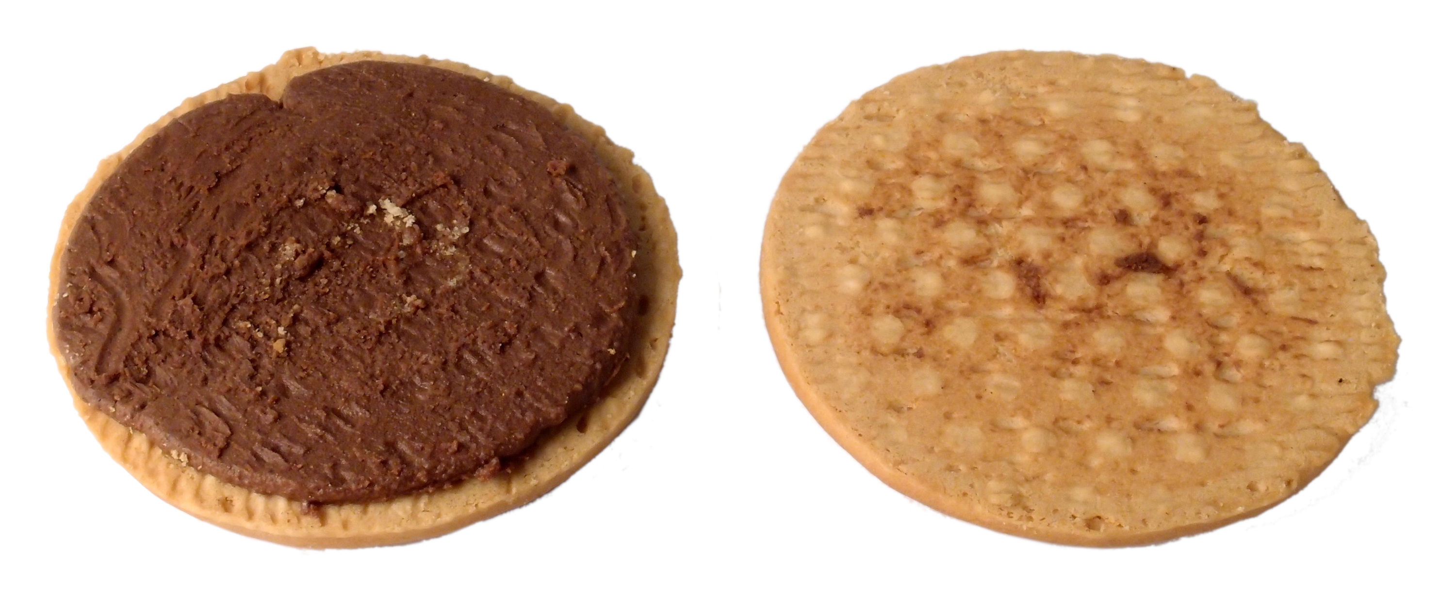 A sandwich cookie, split open to make the filling visible.